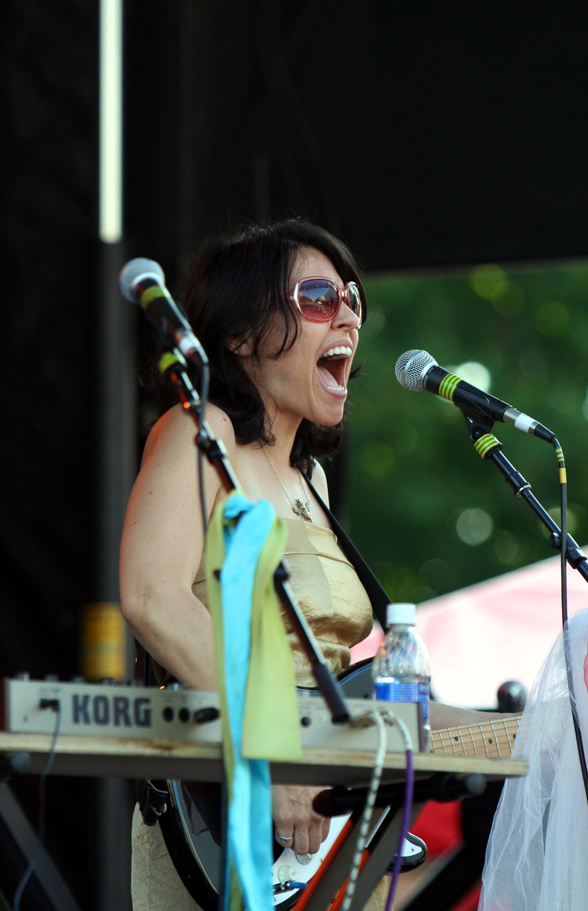 A photograph of Stephanie Morgan, lead singer of stephaniesǐd, performing at Bele Chere 2009.